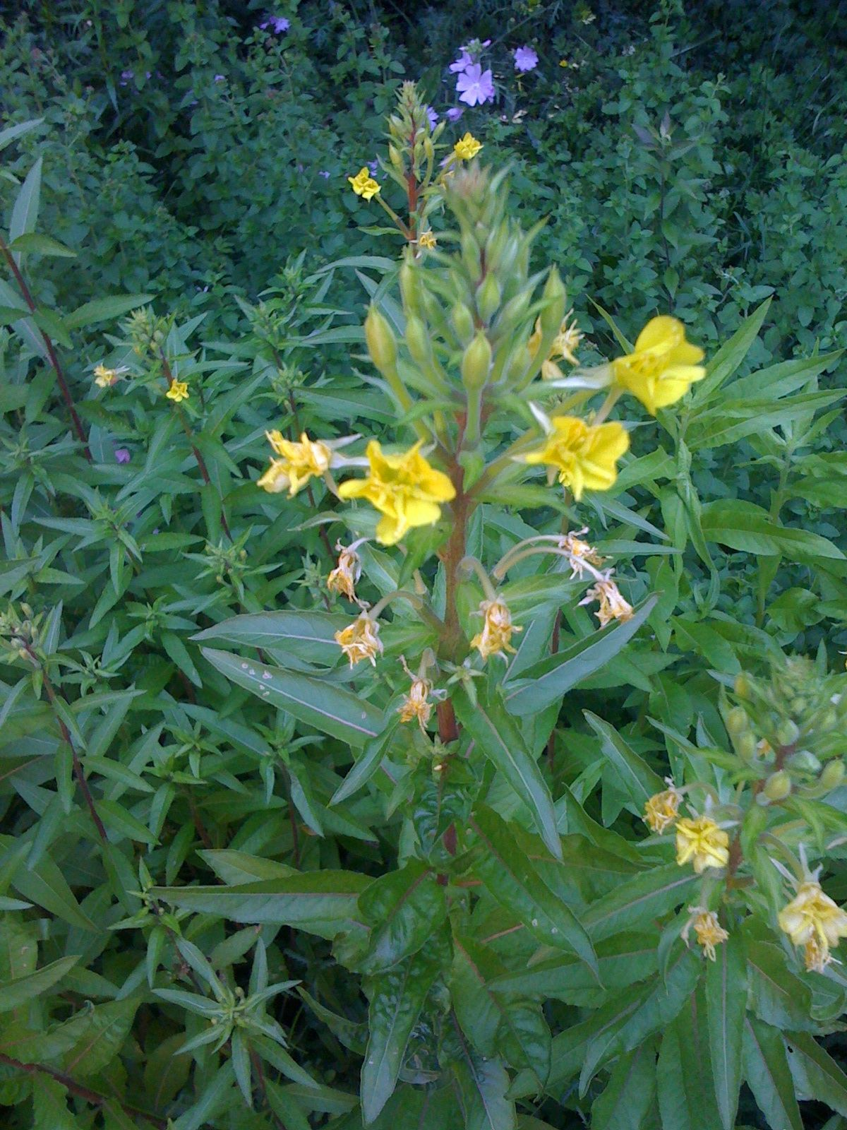 Oenothera biennis / onagre